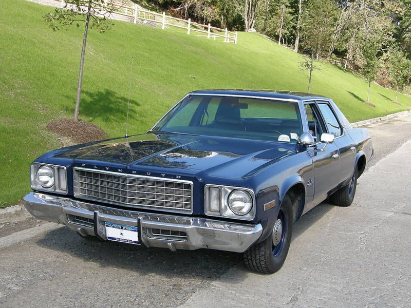 1976-1977 Plymouth Gran Fury 4-door sedan